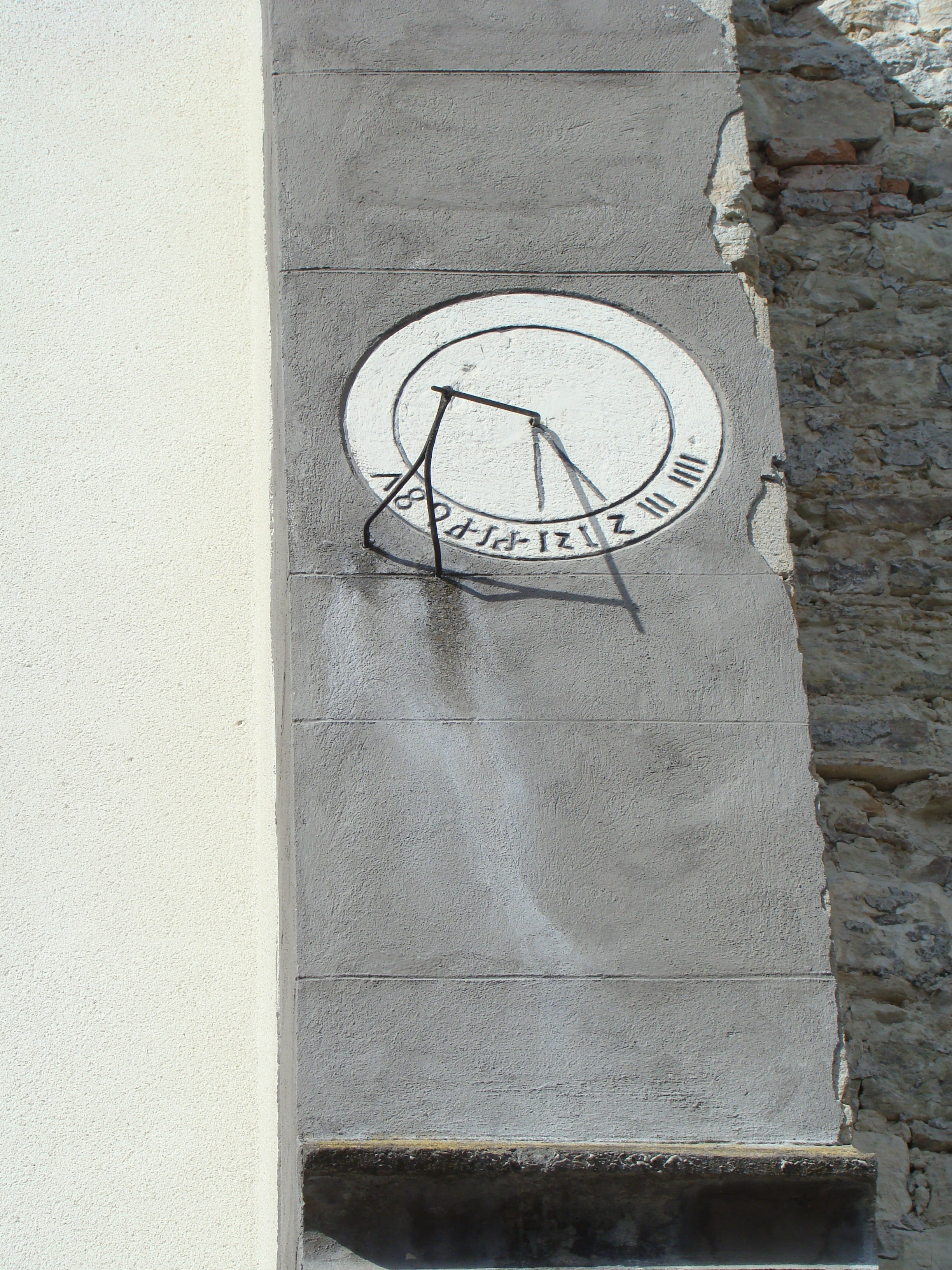 Saint Demetrius church in Dipșa (former lutheran church), Bistrița-Năsăud county, Romania